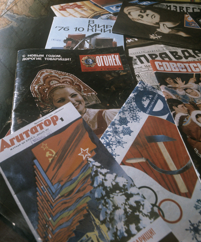 “Collage “Soviet Press Today””. Collage “Soviet Press Today.”